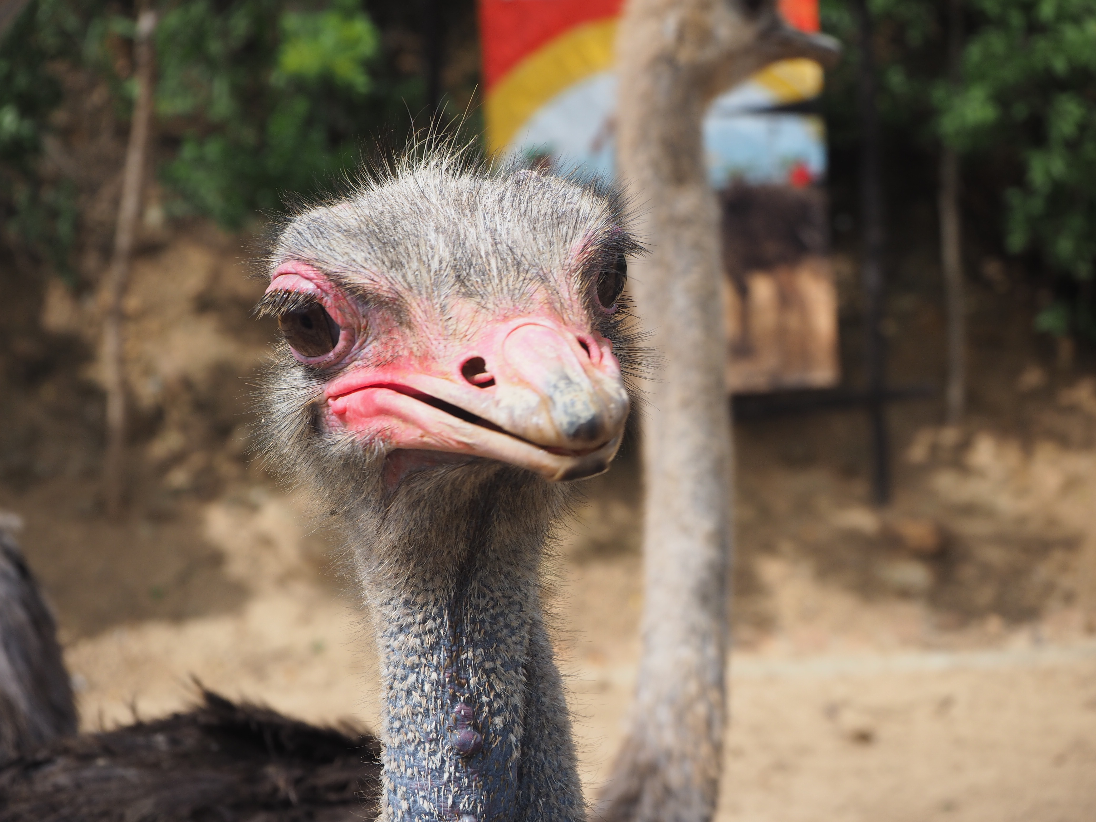 Ostrich in Santander, Colombia